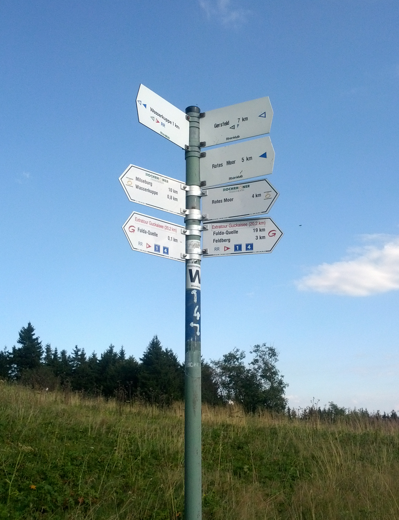 Signpost / trail blazing / Rhönklub (RK) / Germany